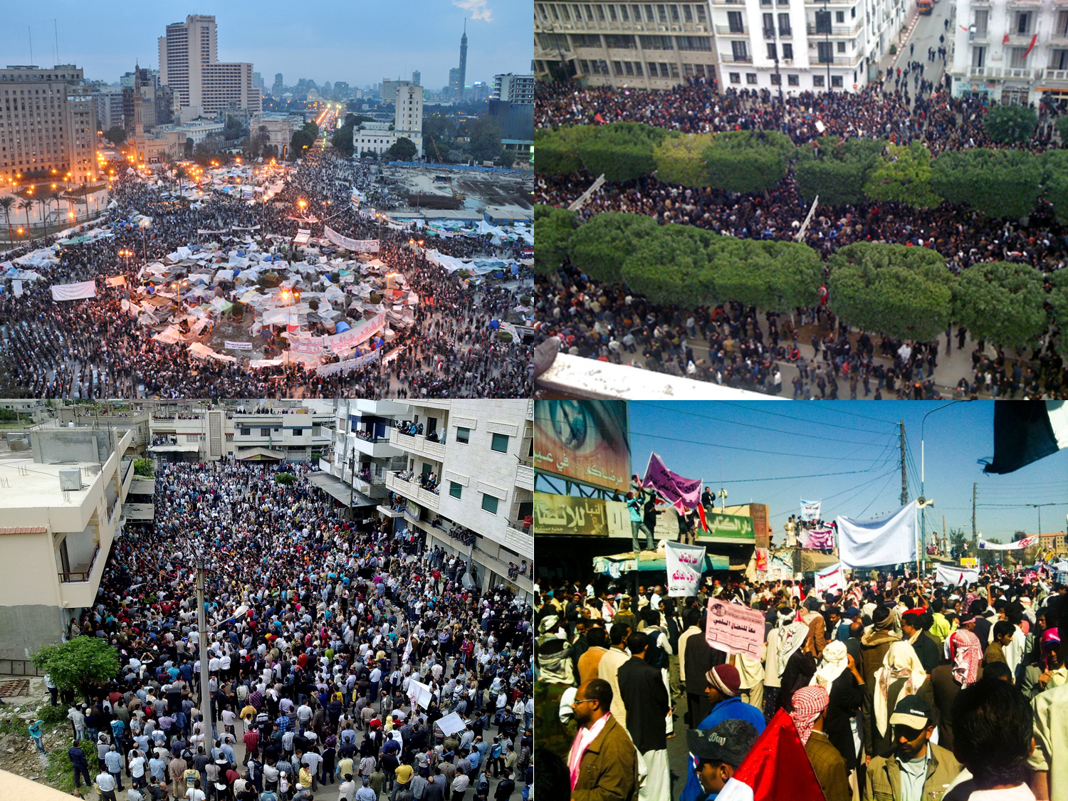 A collage for MENA protests. Clockwise from top left: 2011 Egyptian revolution, Tunisian revolution, 2011 Yemeni uprising, 2011 Syrian uprising.